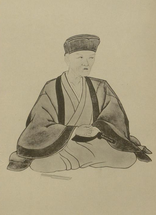 Portrait of Noro Genjou